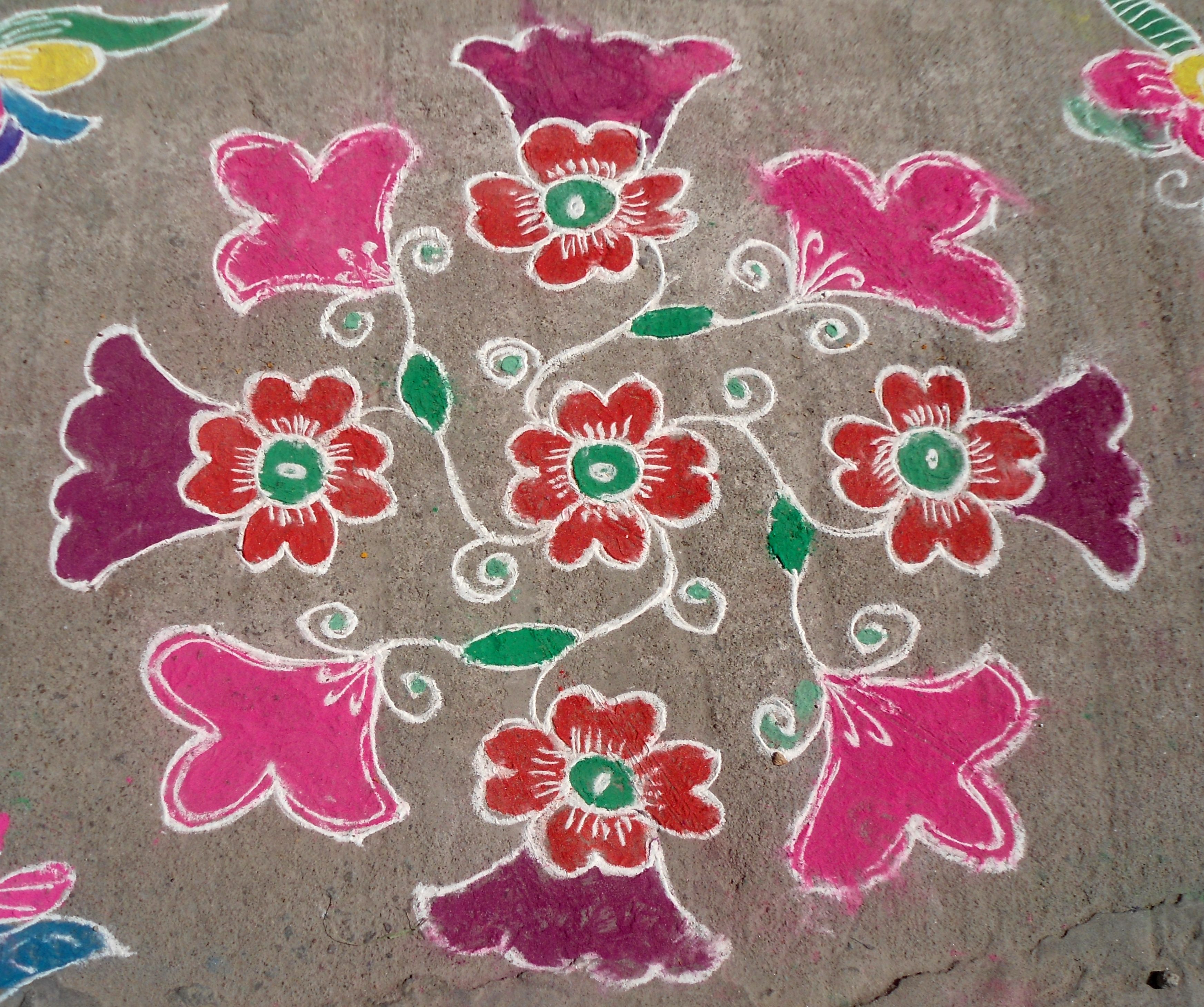 Sankranti Muggulu at Nizampet, Rangareddy district